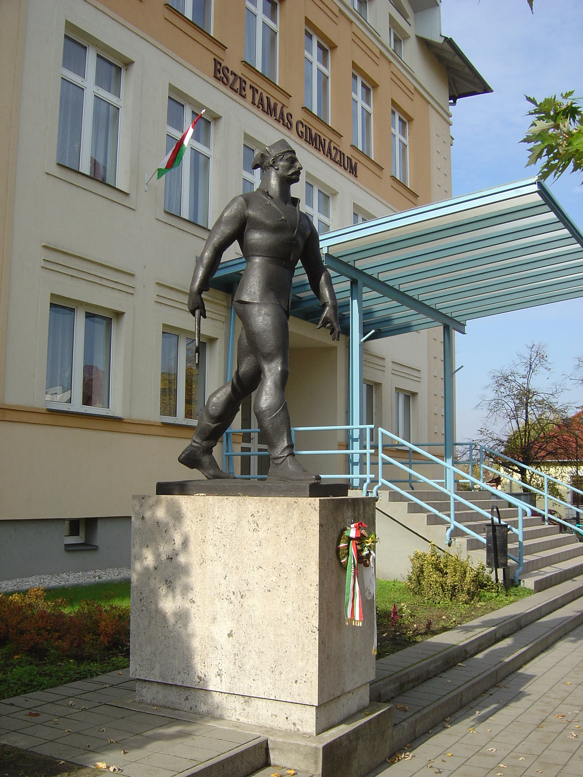 Statue of Tamás ESZE, in front of the secondary school named after him in Mátészalka (Hungary)